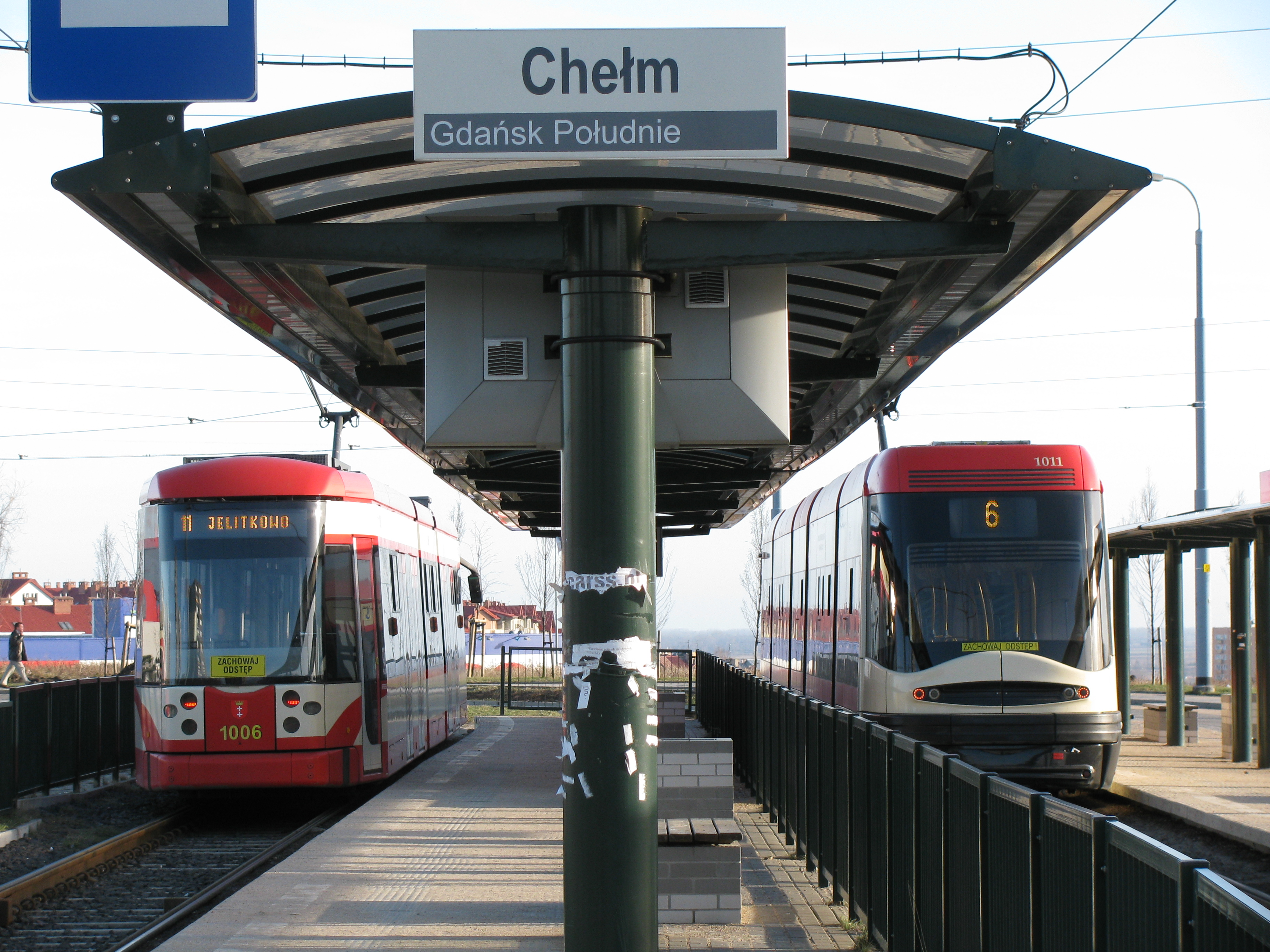 The tram track loop in Gdańsk Chełm (Poland): a Bombardier NGT6-2 tram (left) & a PESA 120Na tram (right).